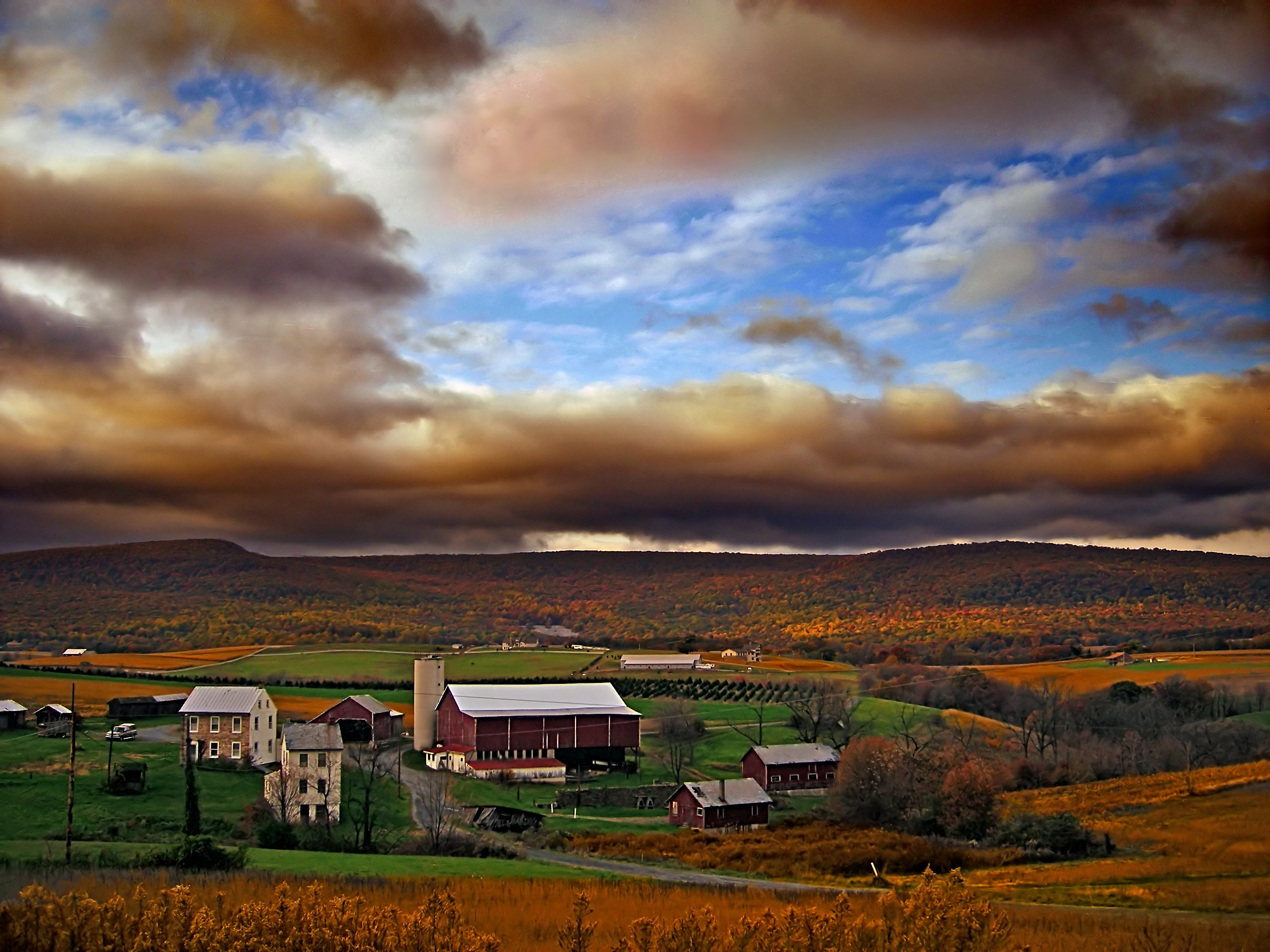 Farmstead, Windsor Township, Berks County, along old Route 22.